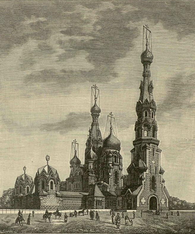 Church of the Savior on Blood